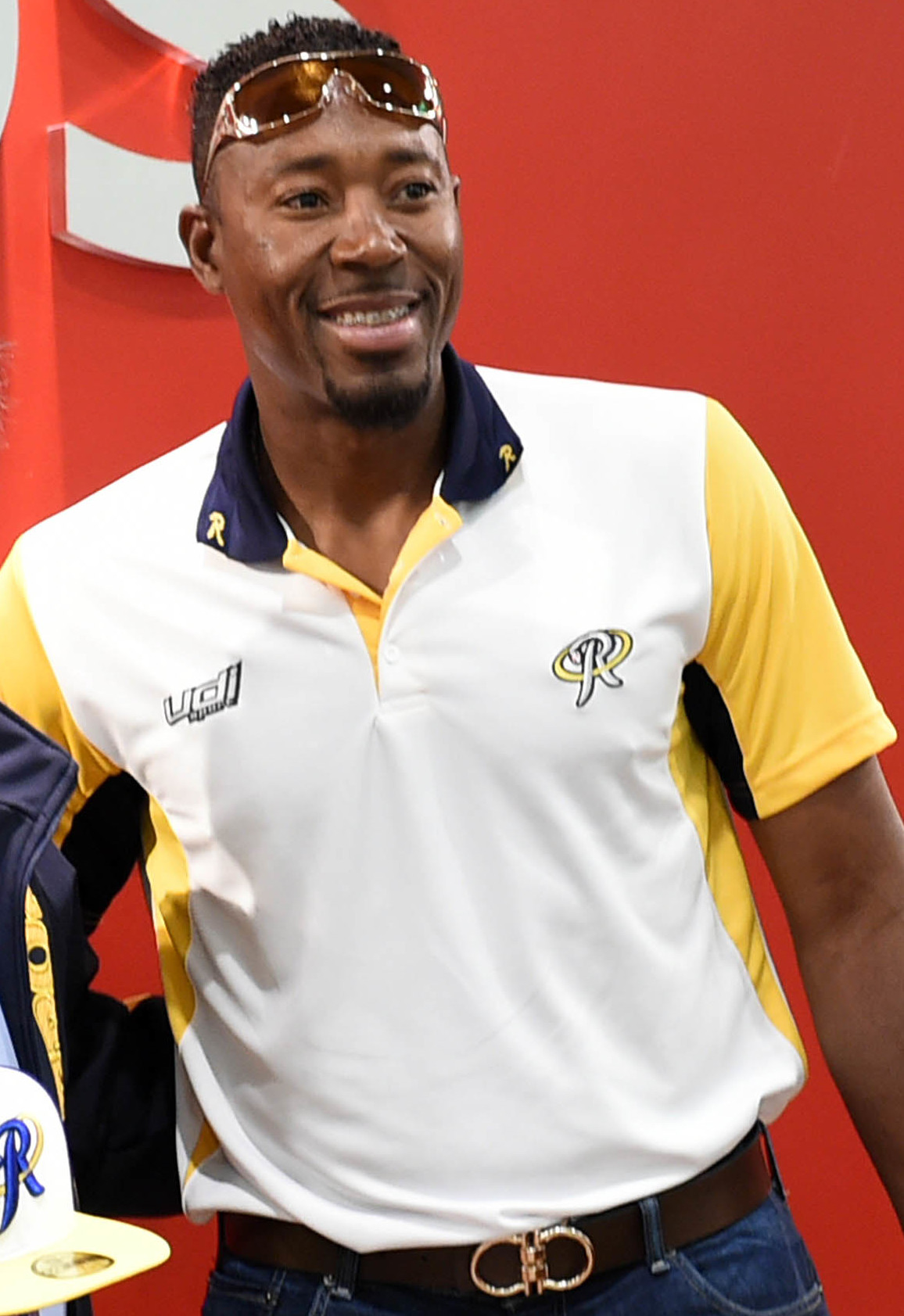 Carlos Lozano de la Torre, Governor of Aguascalientes, poses with Lorenzo Barcelo of the Rieleros de Aguascalientes in 2016.